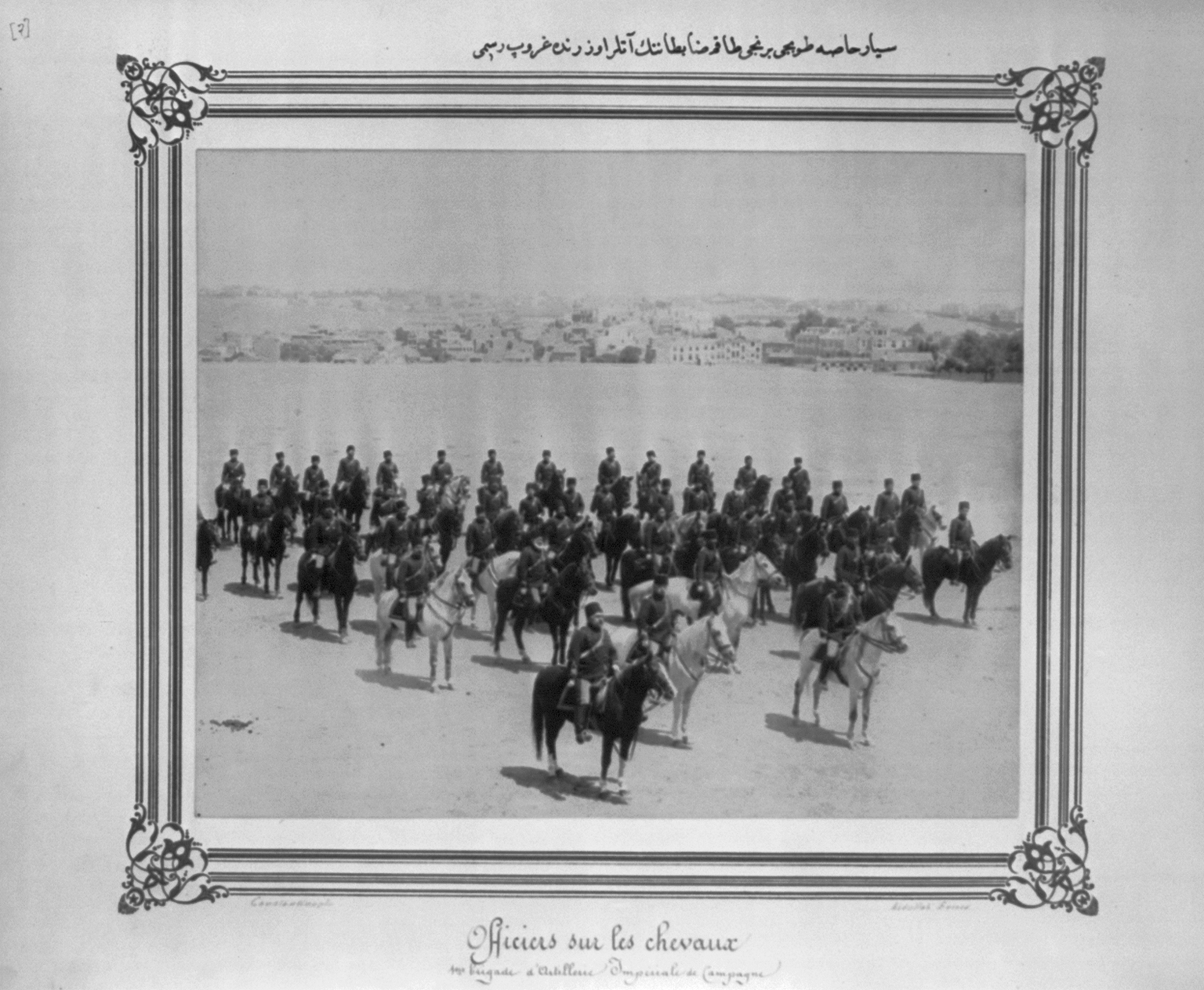 A group photograph of the officers of the First Mobile Artillery Bodyguard Brigade, on horseback.